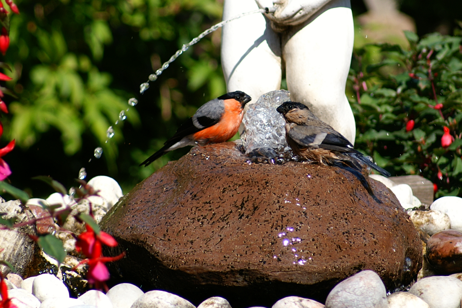 Bathing pair of Eurasian bullfinches